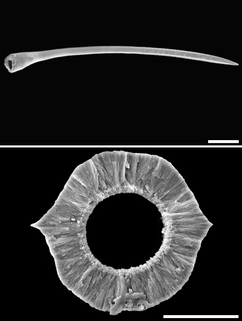 Scanning electron microscopic (SEM) images love-dart of Bradybaena similaris. Upper image is love dart from side view while the measure is 500 μm (0.5 mm). Lower image is cross-section while the measure is 50 μm.